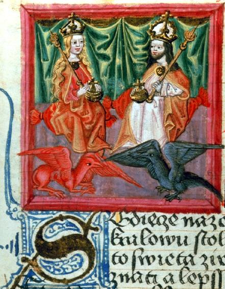 Charles IV of the Holy Roman Empire and his first wife, Blanche of Valois